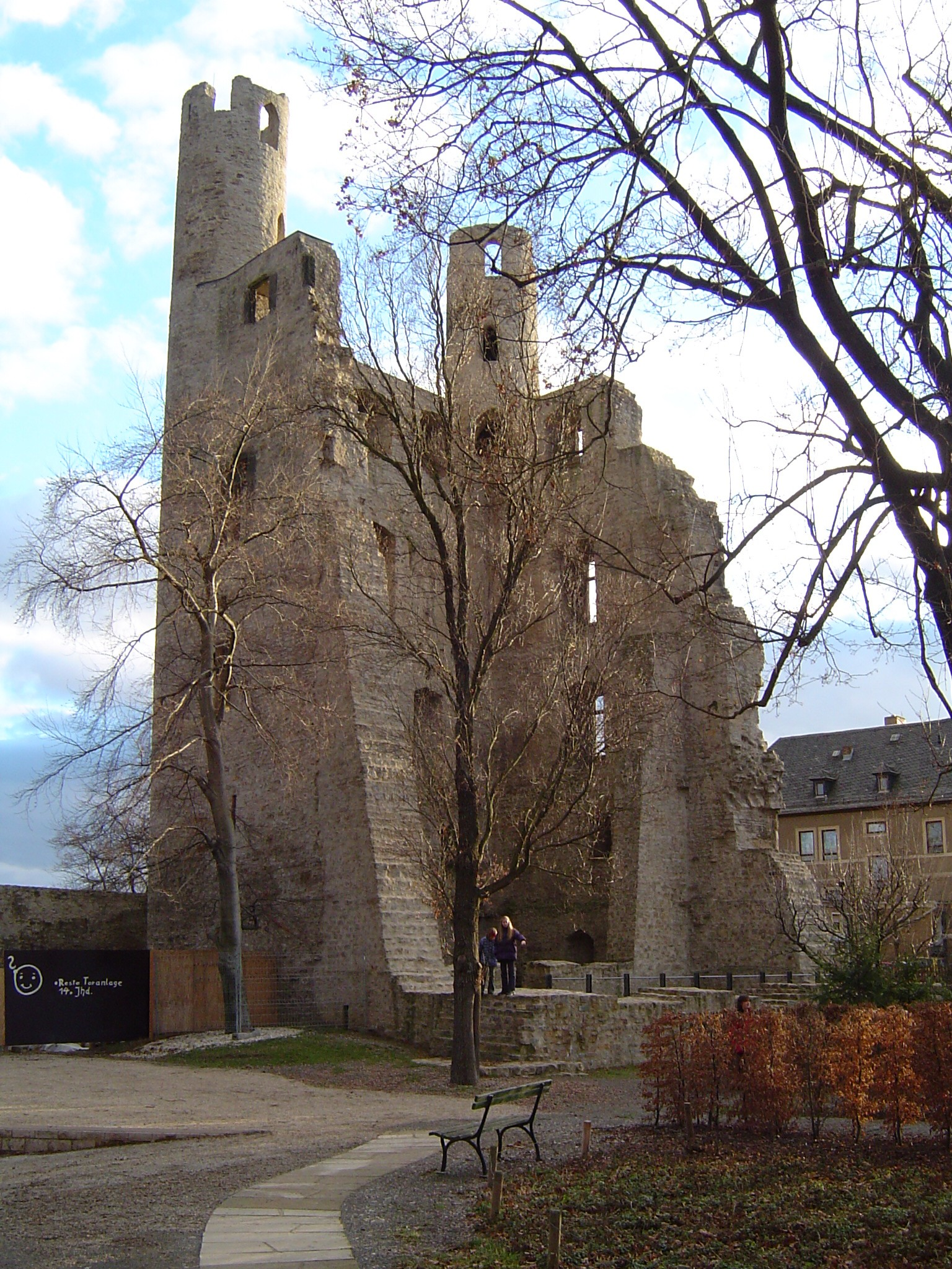 Castle Hoher Schwarm in Saalfeld (Germany)